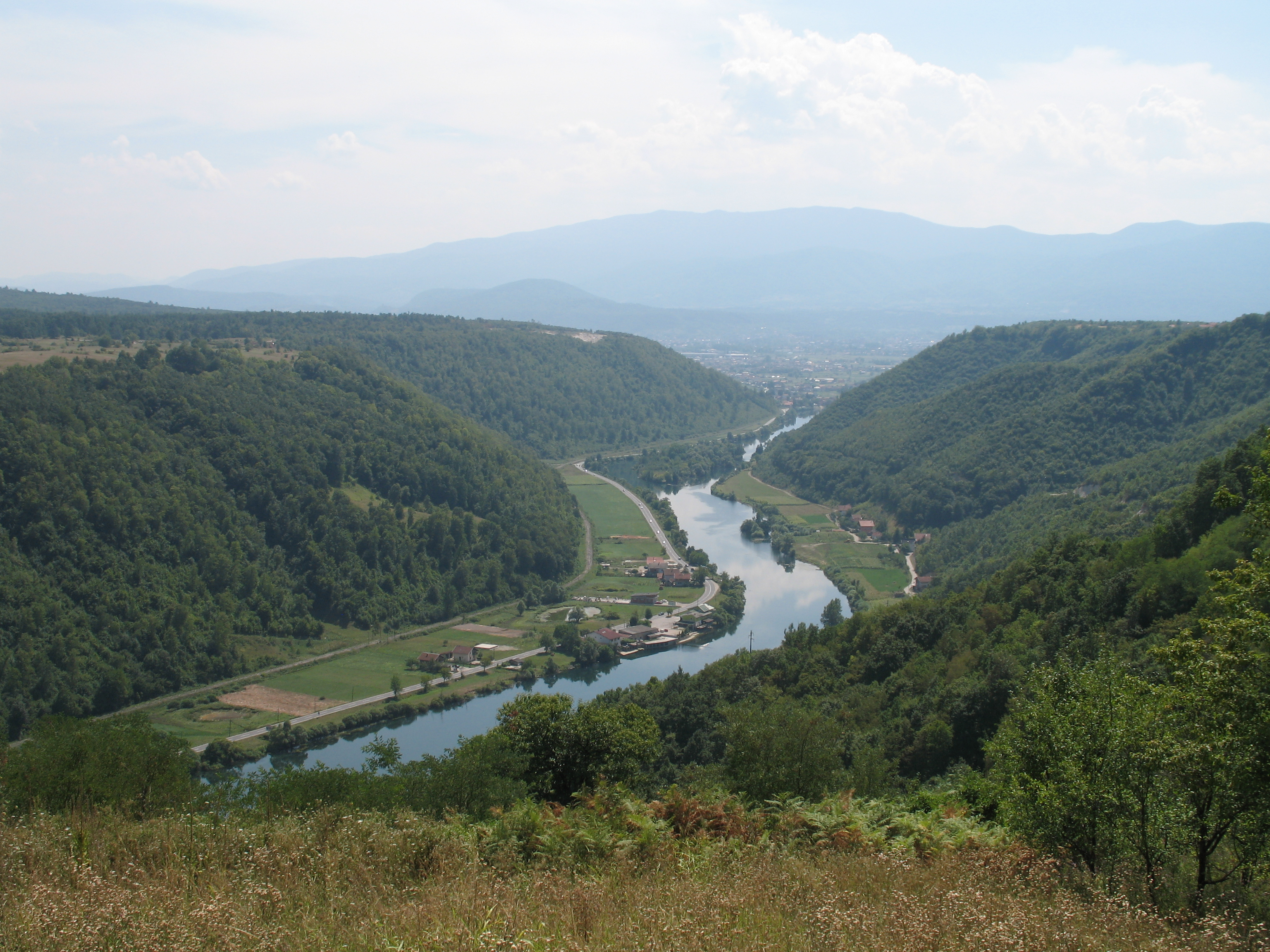 The river "Una" in the north-west of Bosnia (view from Brekovica).